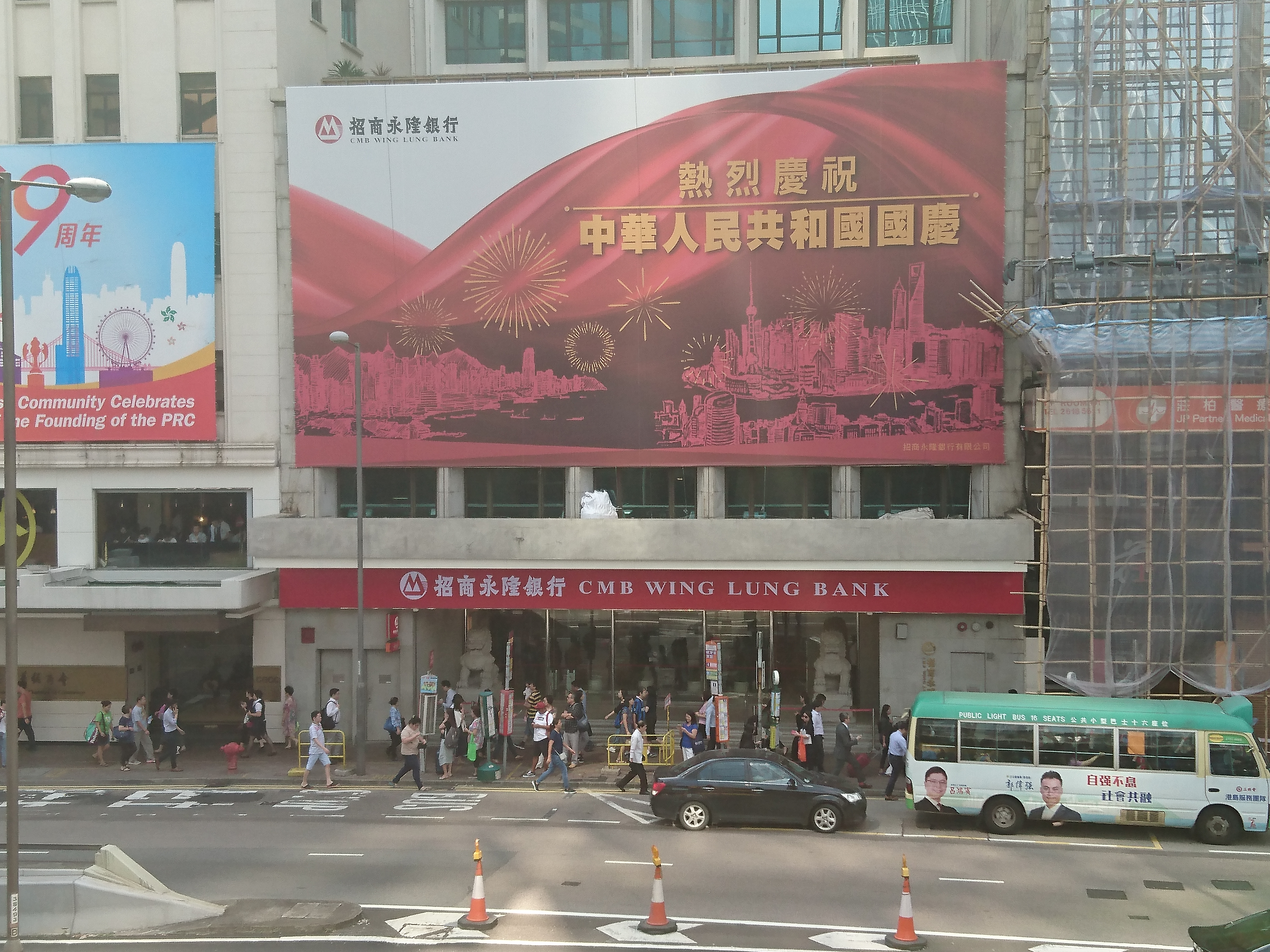 Wing Lung Bank Building